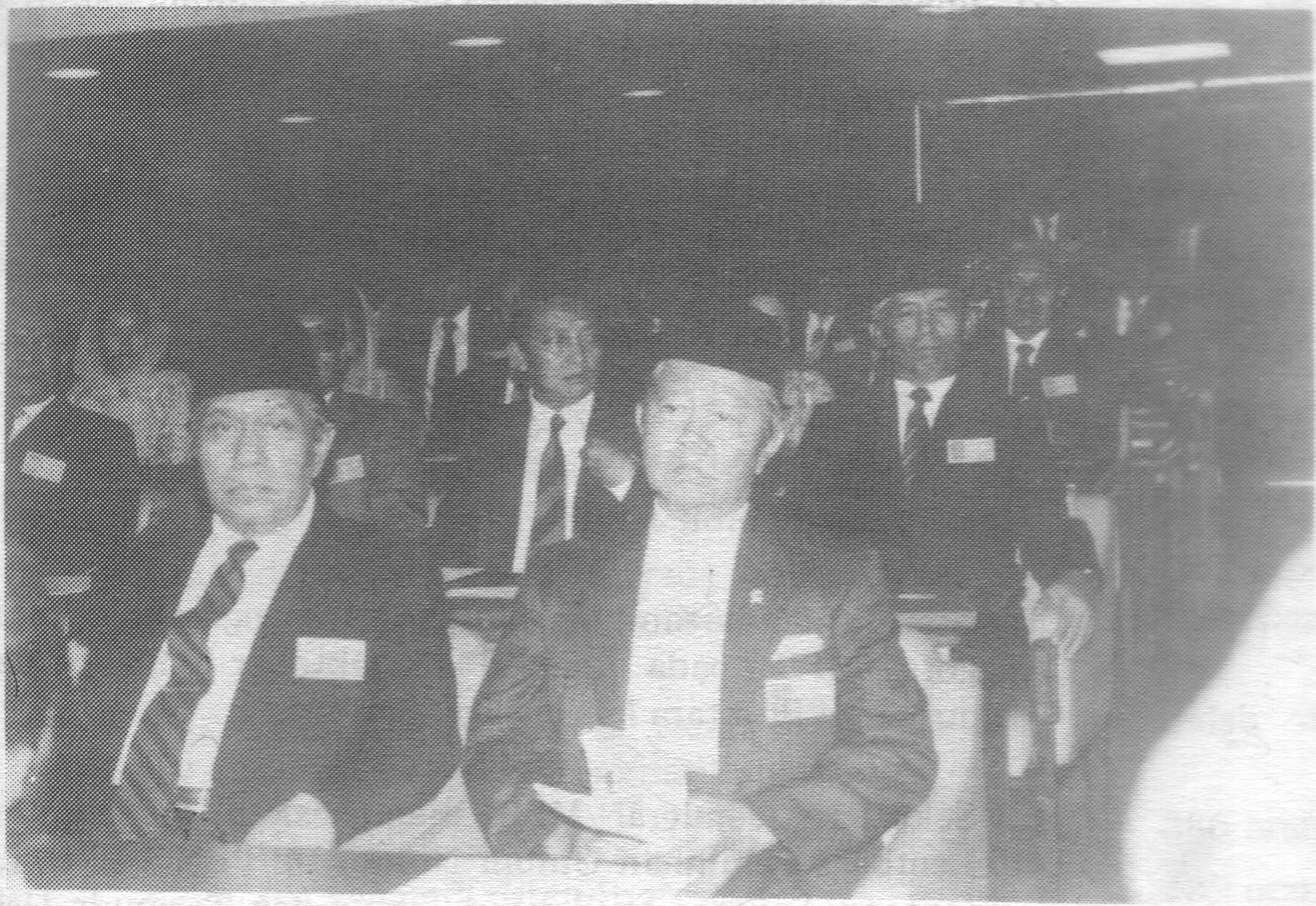 Members of the People's Representative Council elected in 1987 are being sworn in. Soedharmono, the Chairman of Golkar, can be seen in the far right of the second row.